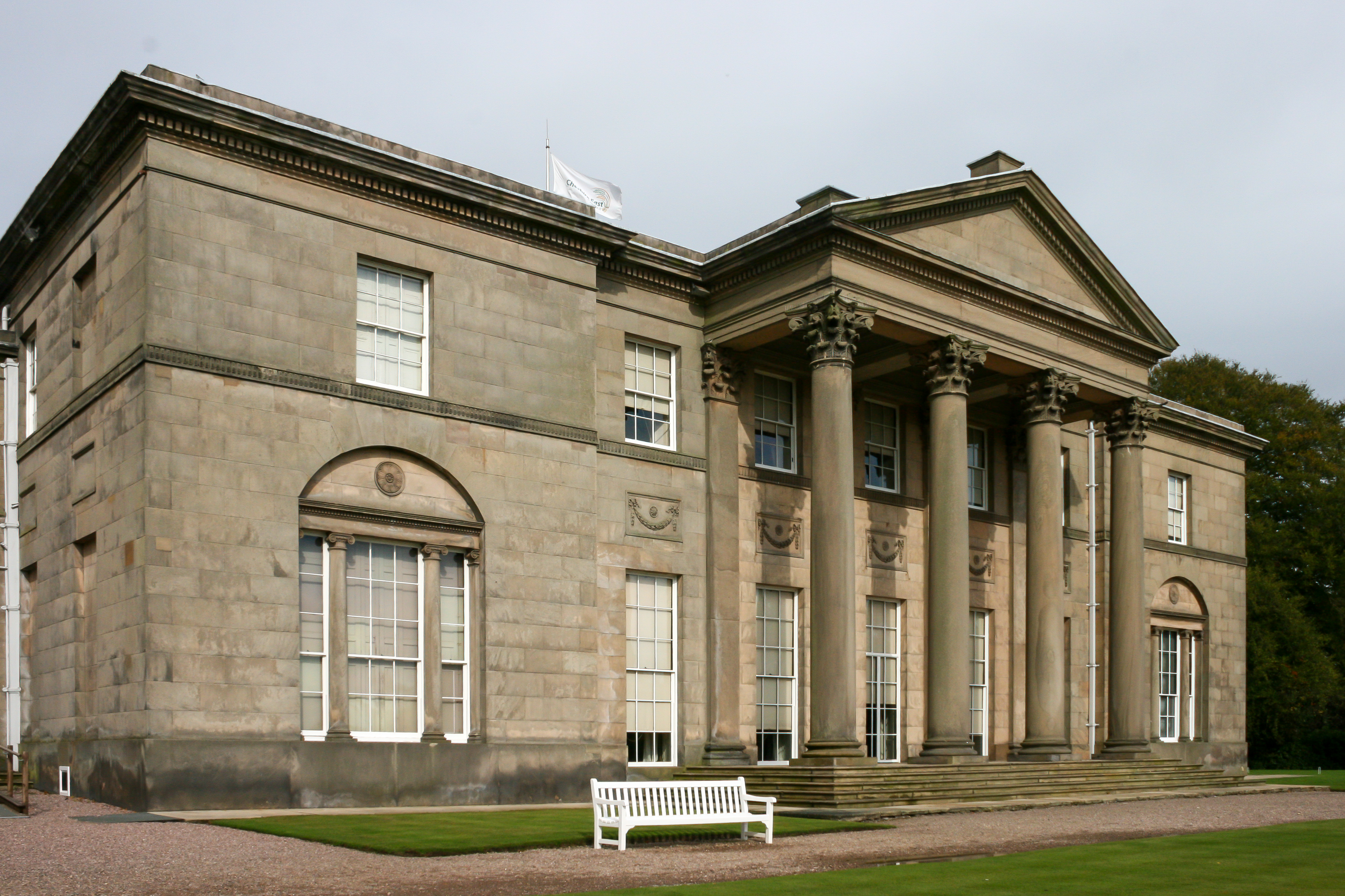 Tatton Hall at Tatton Park, UK, in 2009.